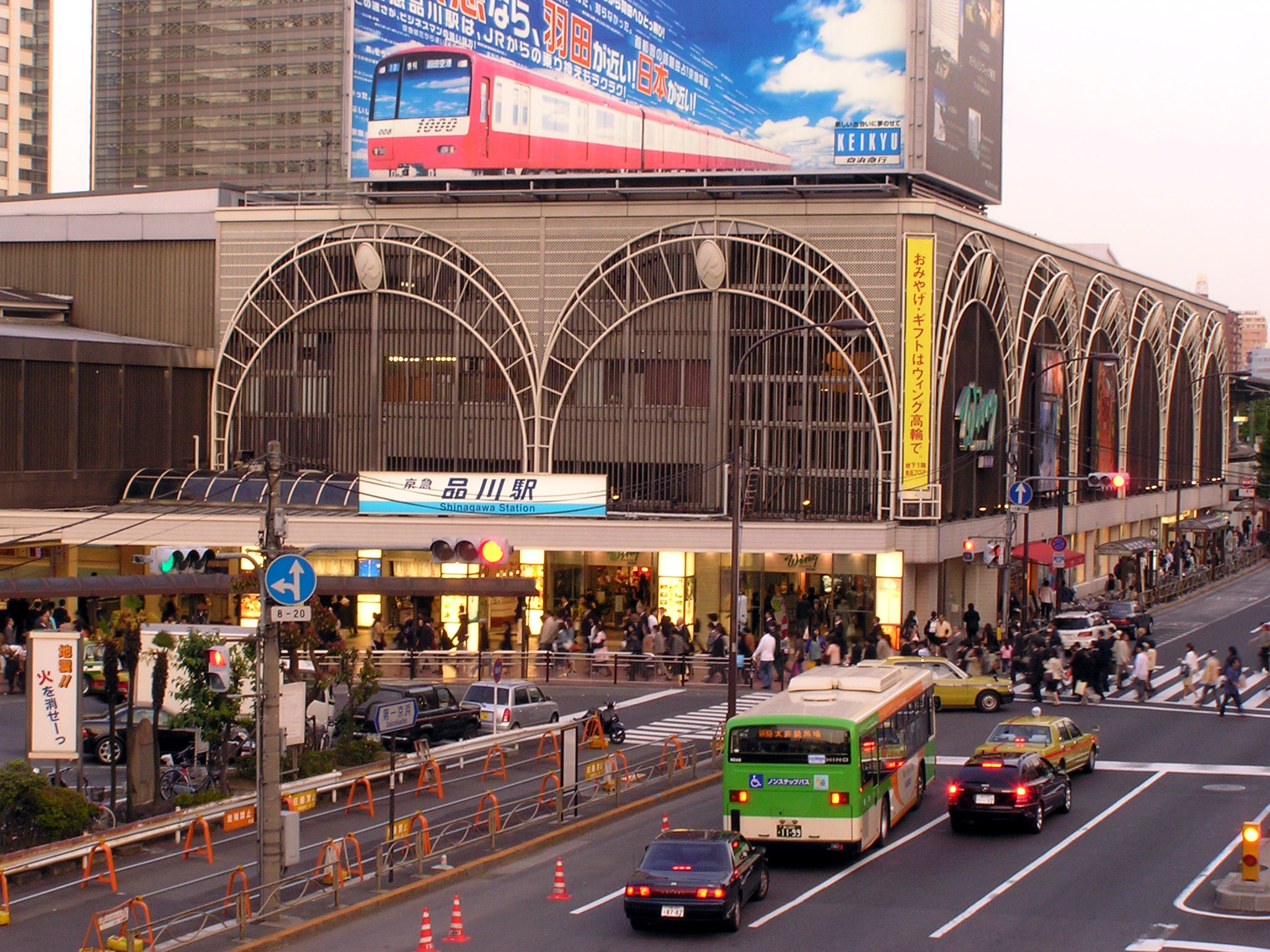 Shinagawa Station from outside, Tokyo, Japan.